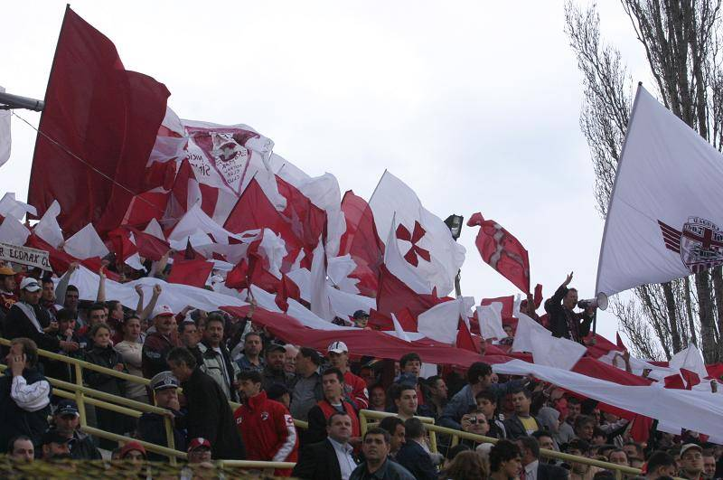 (CFR Cluj gallery, unknown, CFR 1907 Cluj Forum